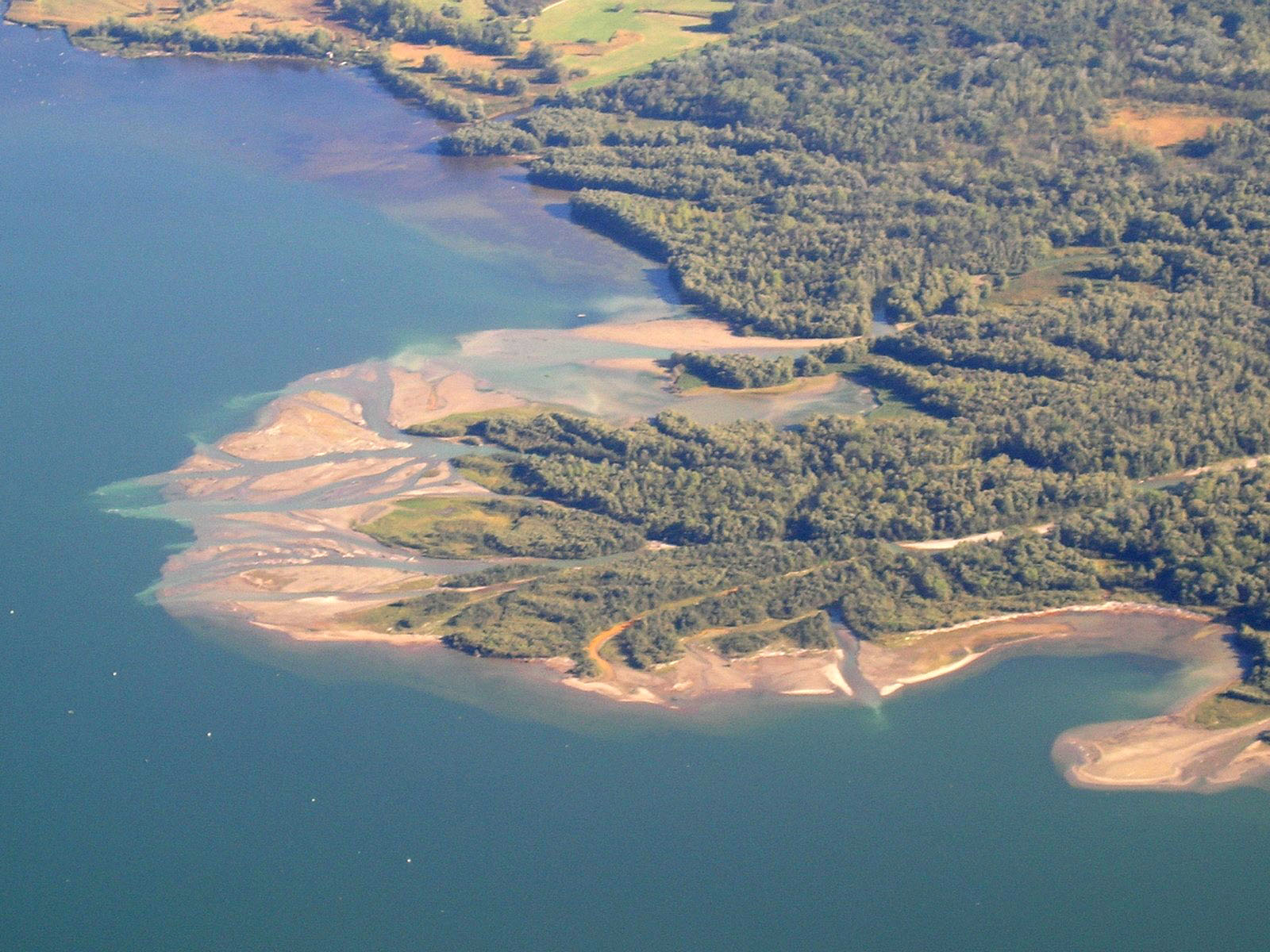 Delta of Tiroler Achen